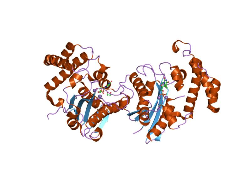 Cartoon representation of the molecular structure of protein registered with 2ido code.